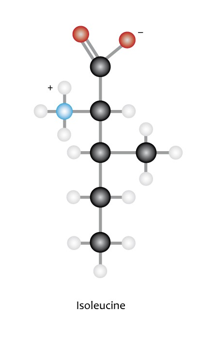 This image was created by the NHS National Genetics and Genomics Education Centre. For further information and resources please visit our website